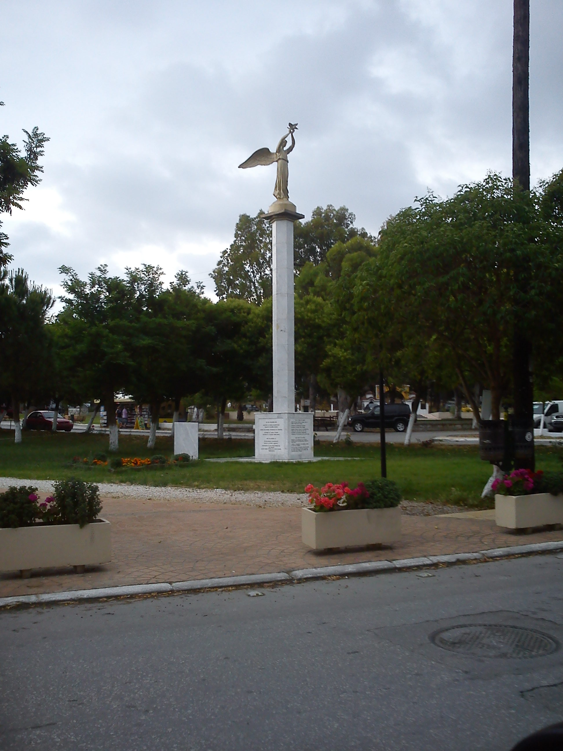 Monument in Ierissos